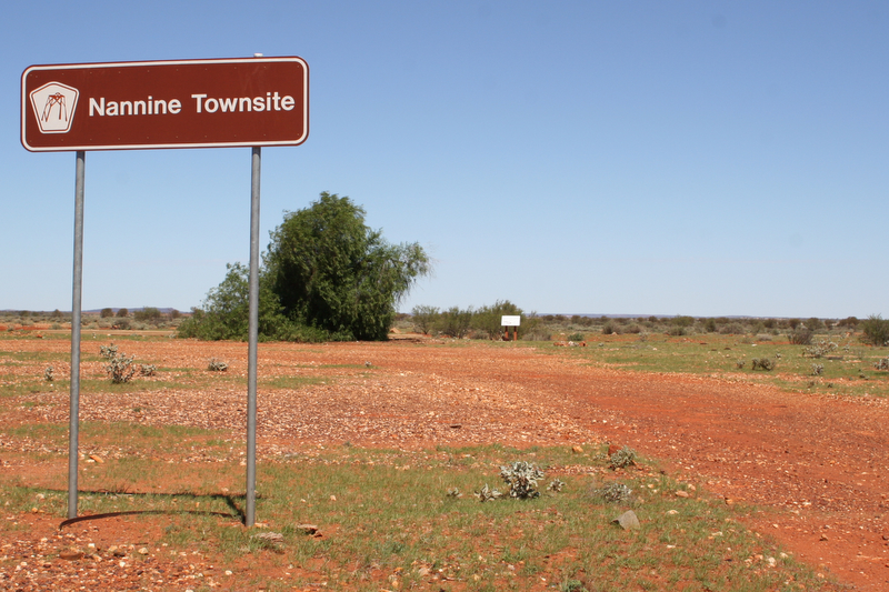 Nannine Township, Western Australia